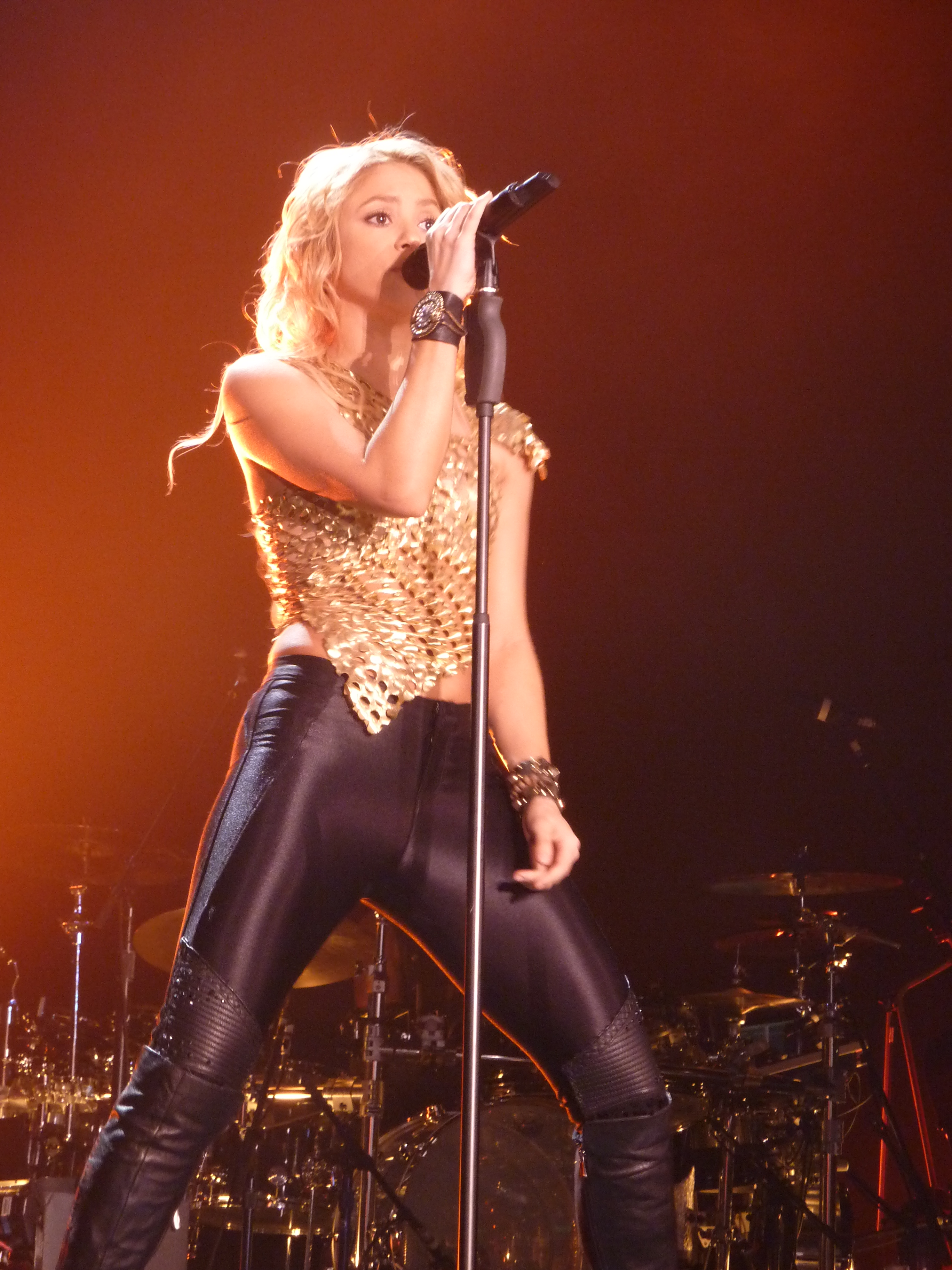 Shakira in concert in Palais Omnisports de Paris-Bercy, Paris in 2010.